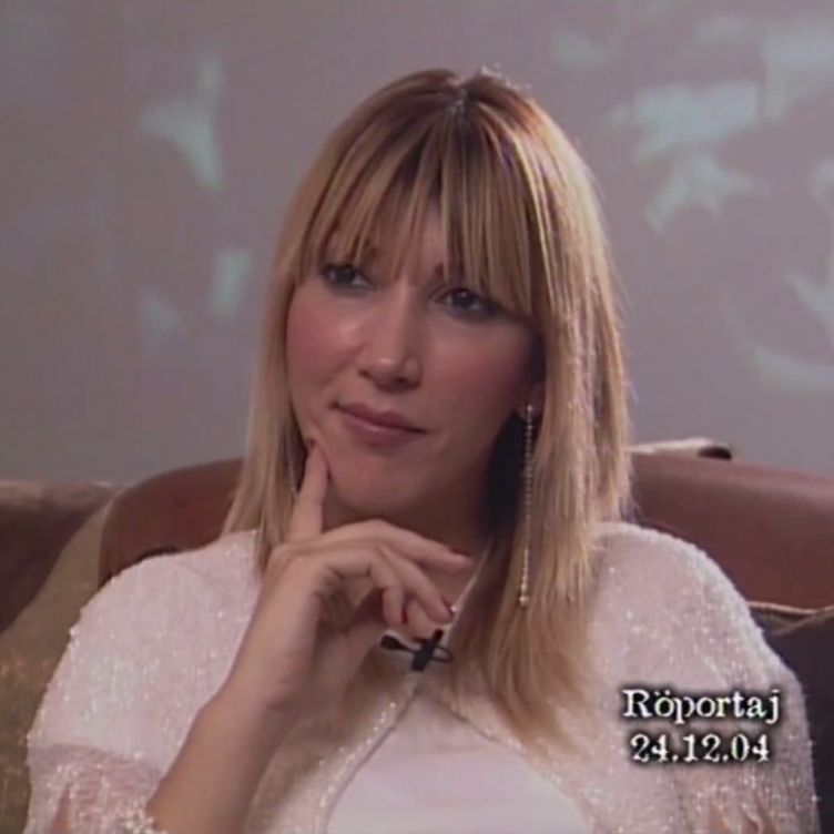 Turkish singer Hande Yener interviewing with Şafak Karaman about her third studio album called Aşk Kadın Ruhundan Anlamıyor.